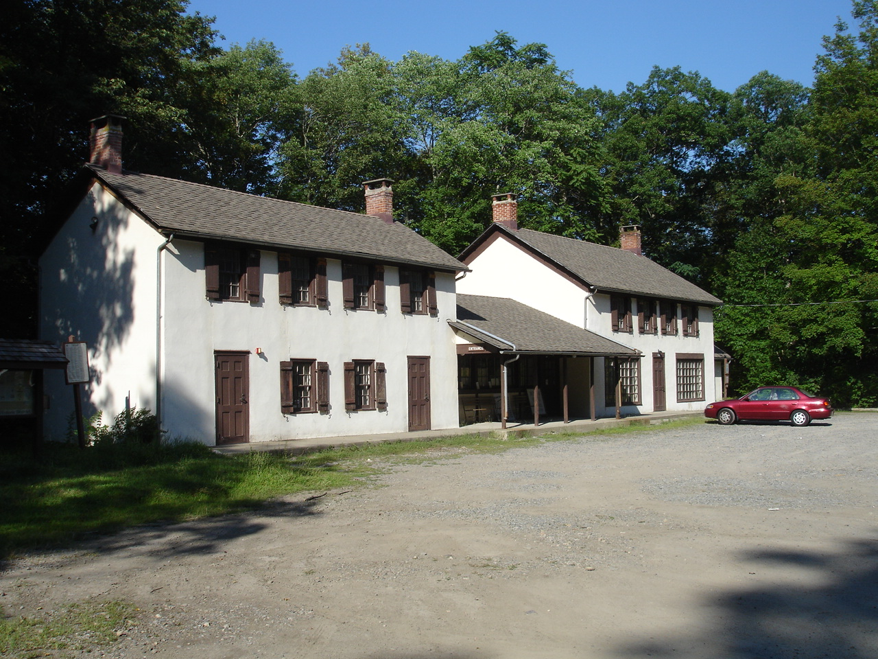 I took this photo of the Old Country Store at the Long Pond Ironworks myself on July 31, 2008